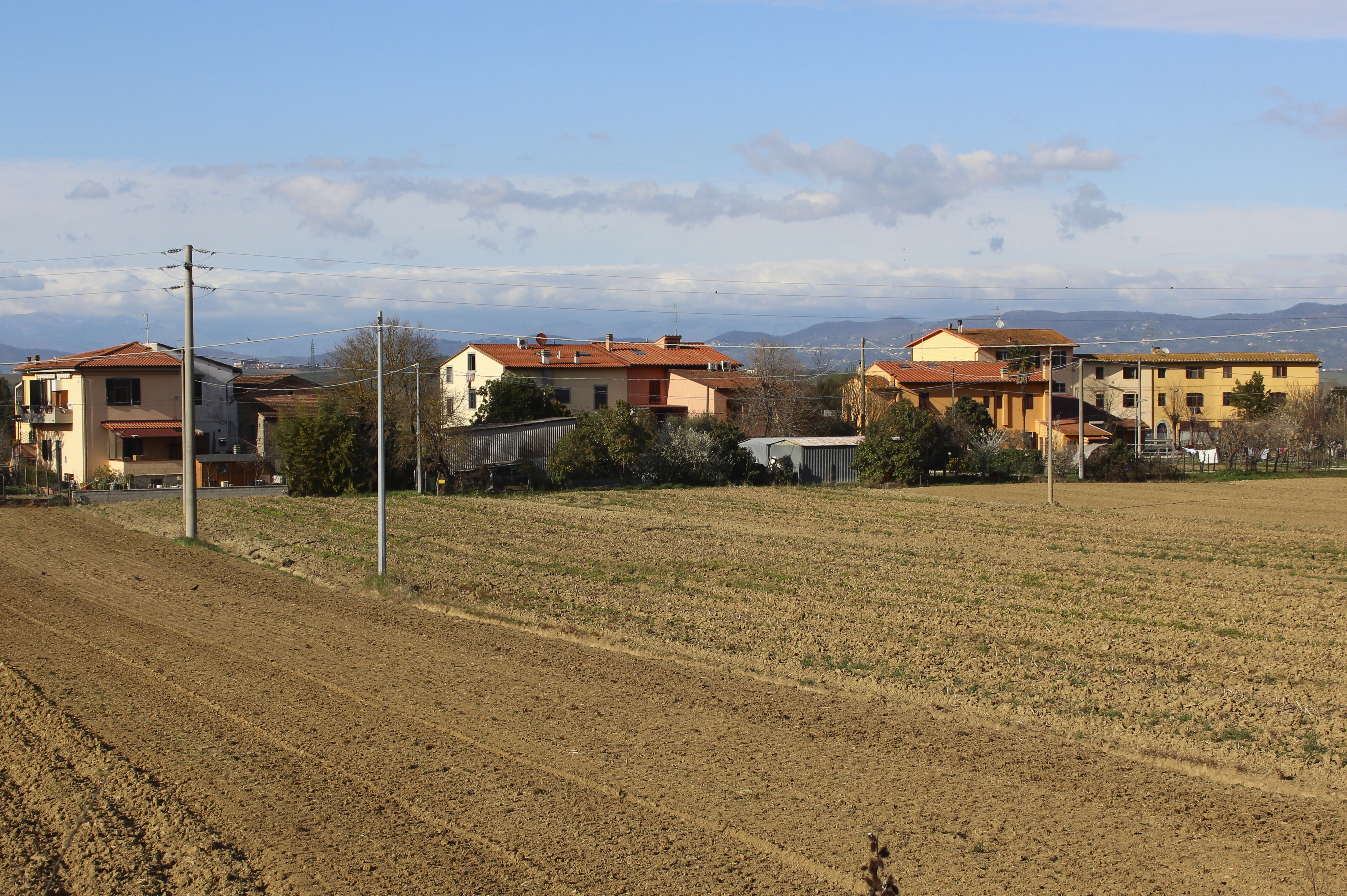 Sant'Angelo a Montorzo, hamlet of San Miniato, Province of Pisa, Tuscany, Italy